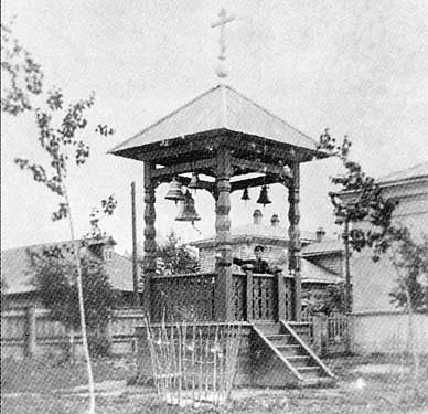 Kirillo-Chelmogorsky Monastery in Arkhangelsk Oblast